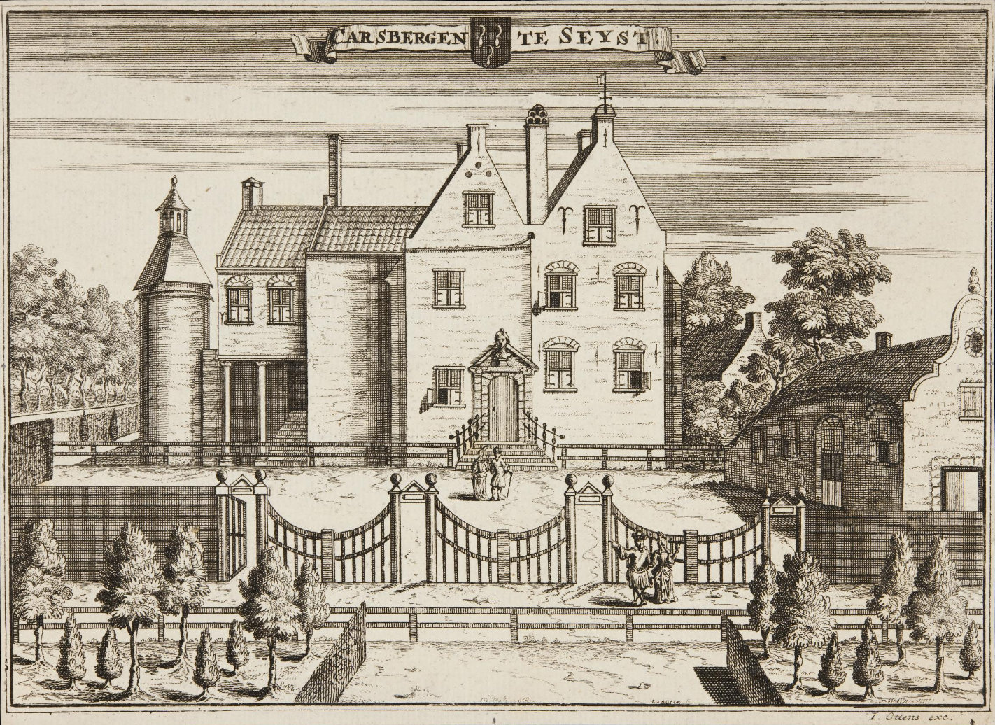 Castle Carsbergen (Kersbergen) in Seyst (Zeist) in 1700, drawing by Caspar Specht (1654-1710), engraving Jan van Vianen (ca.1660-ca.1726)?